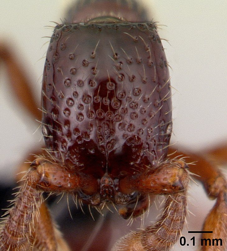 Head view of ant Cerapachys splendens specimen casent0191412.